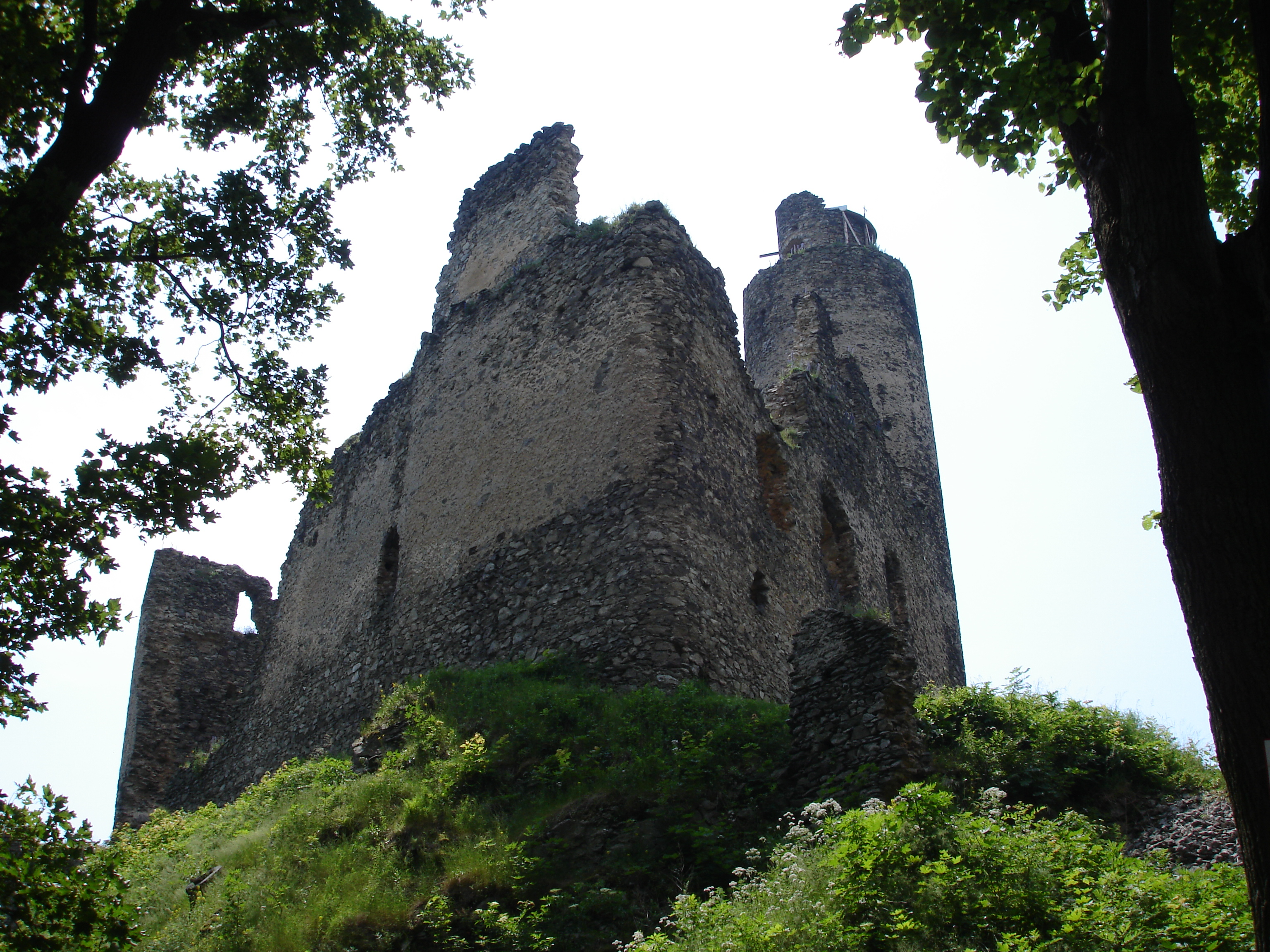 Castle Kostomlaty in České středohoří, Czech Republic